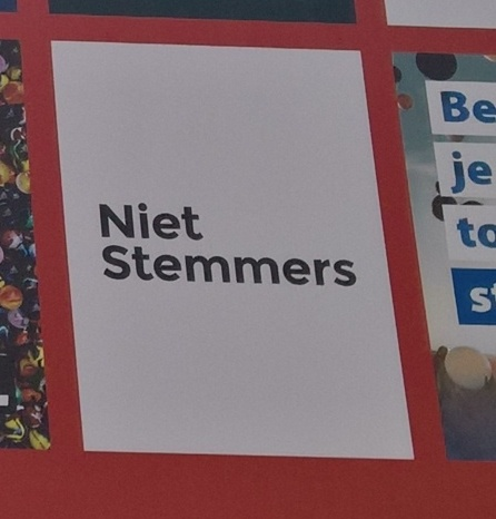 A public sign with all the campaign posters of the 24 political parties competing in the 2nd Chamber elections of 2017.